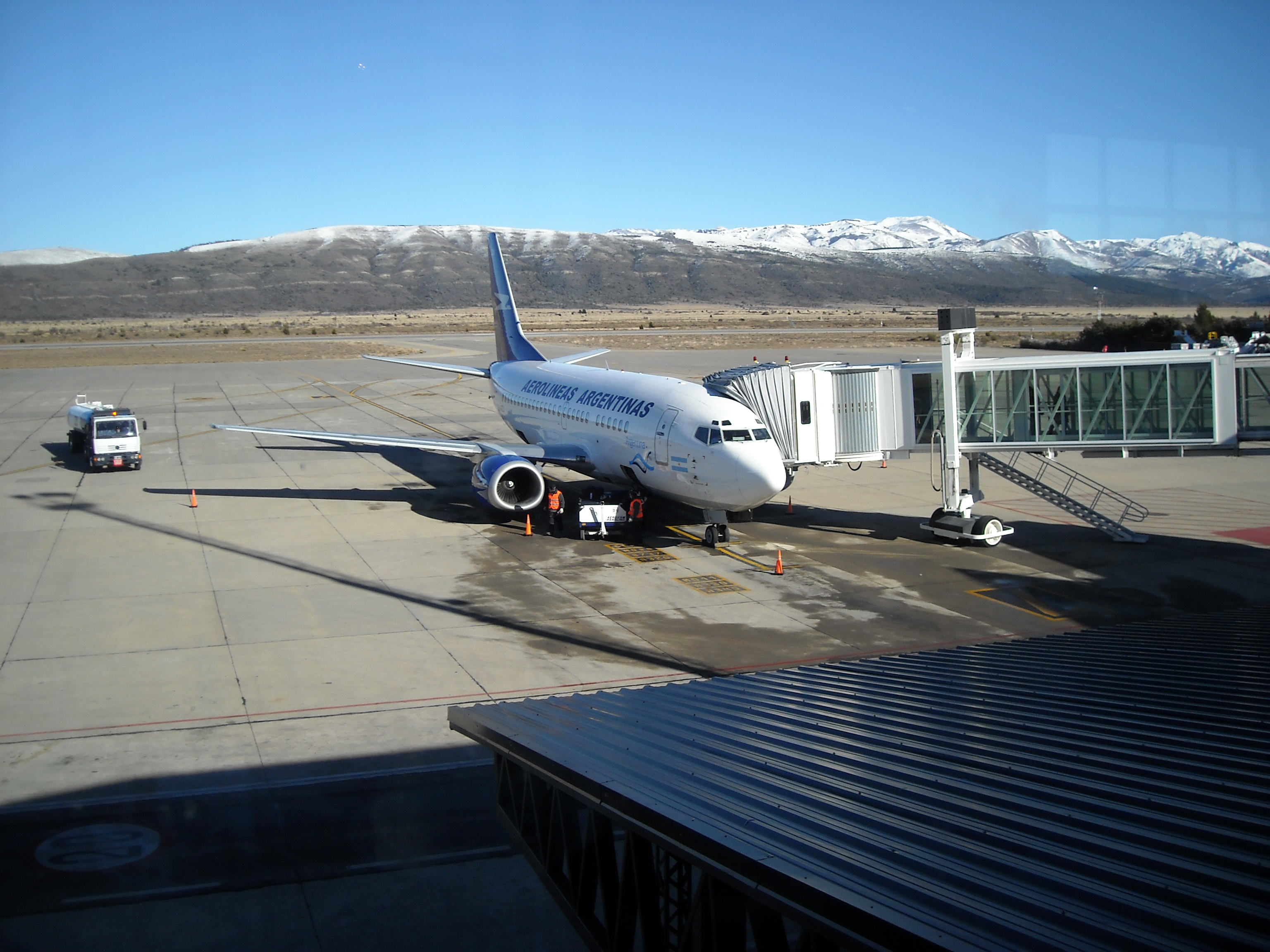 Aerolineas Argentinas' Boeing 737-500 at Bariloche Airport, Río Negro, Argentina.